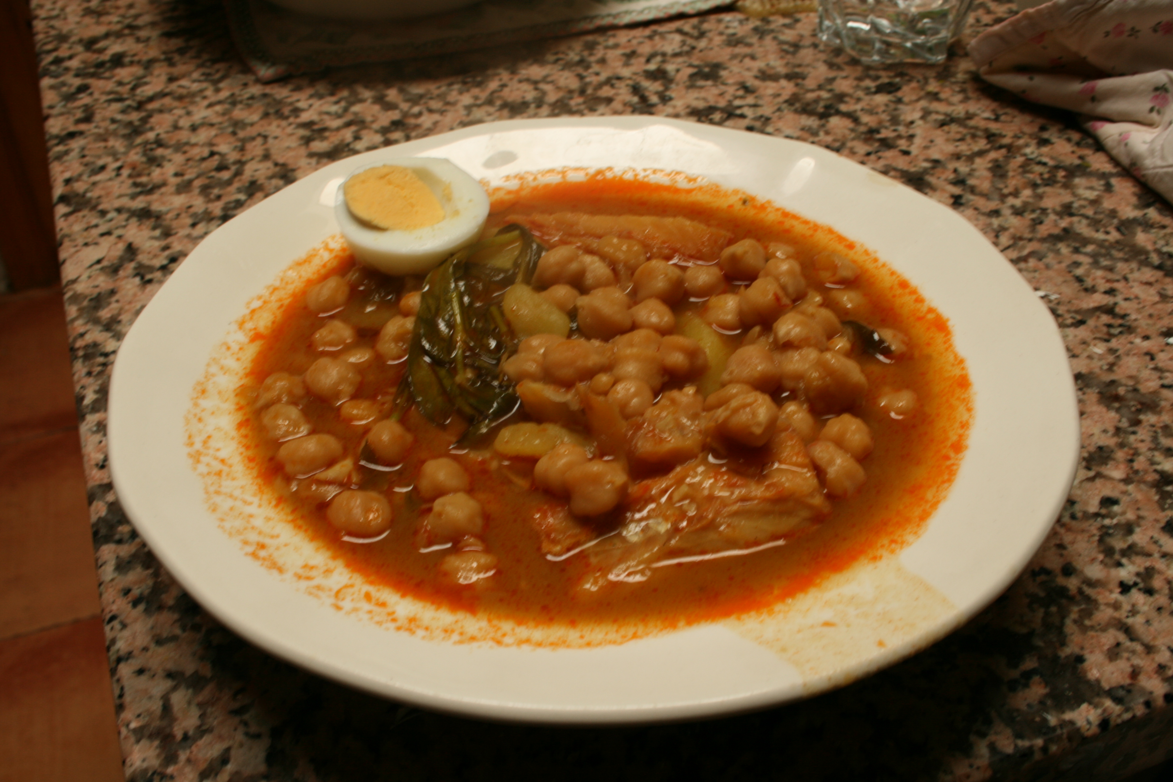 Easter food in spain